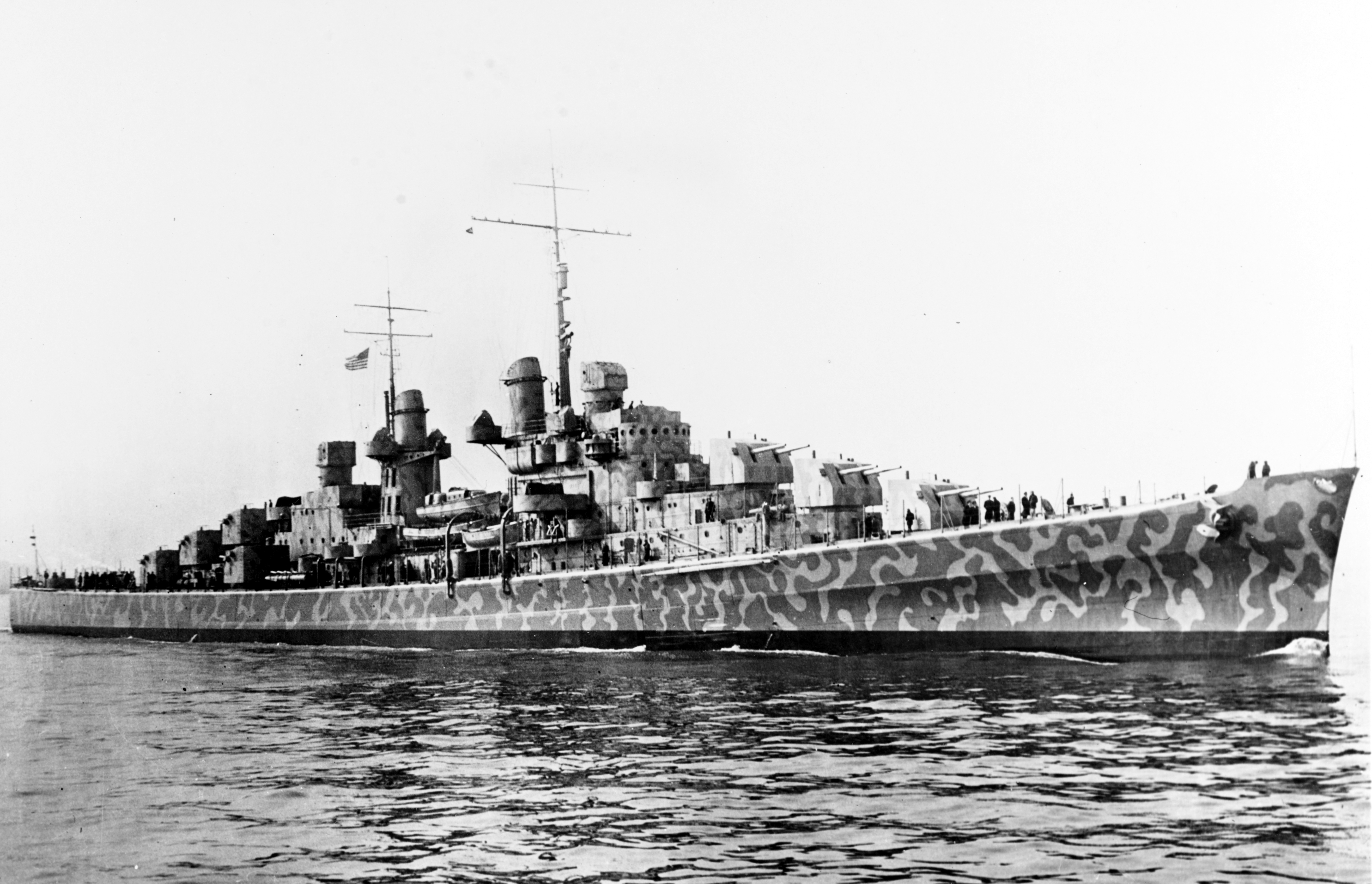 In New York Harbor, 11 February 1942. Photograph from the Bureau of Ships Collection in the U.S. National Archives.